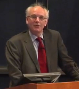 Hew Strachan at the U.S. Naval War college, Newport, R. I.